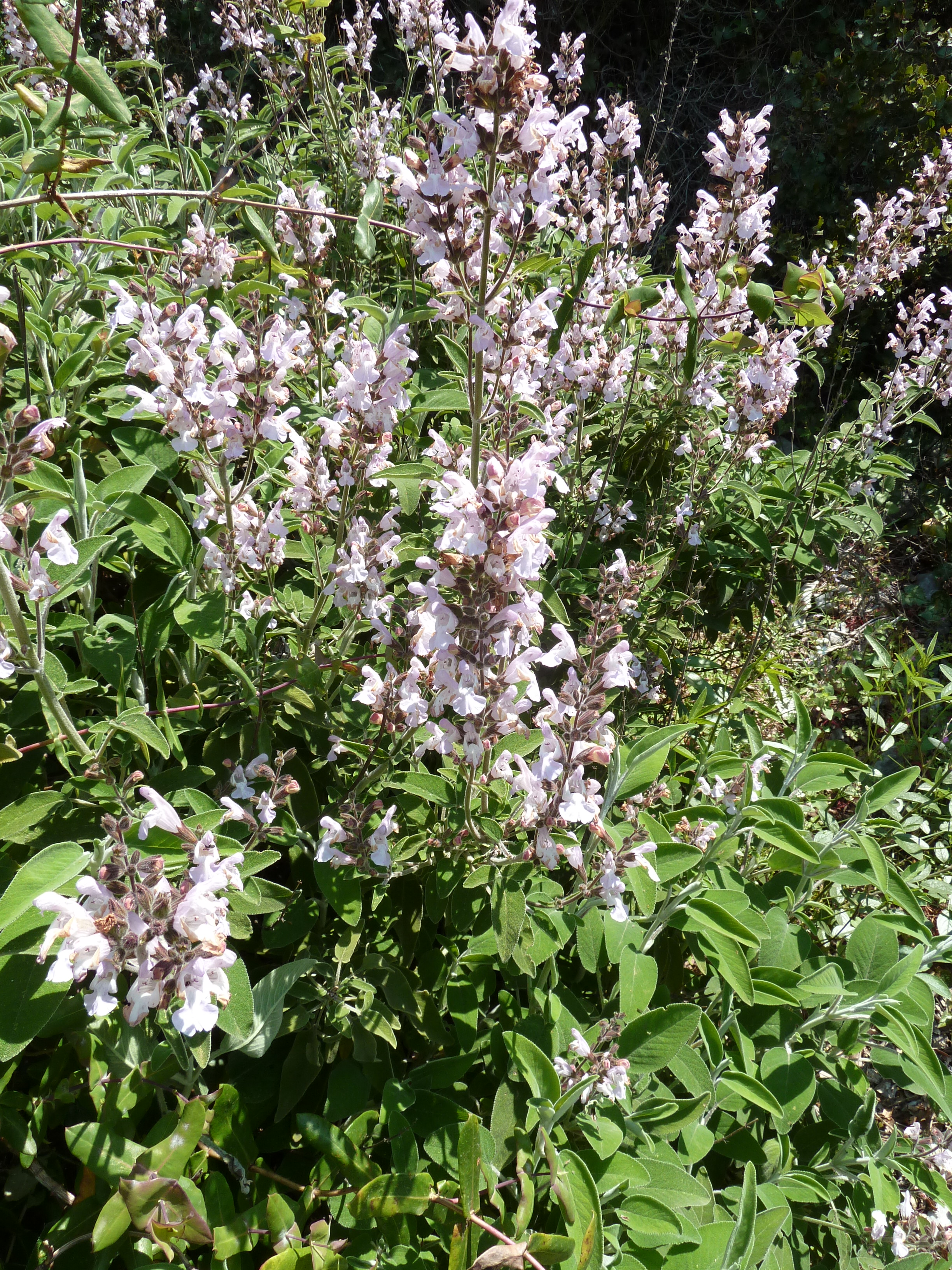 Salvia frusicosa, taken in Mount Athos.